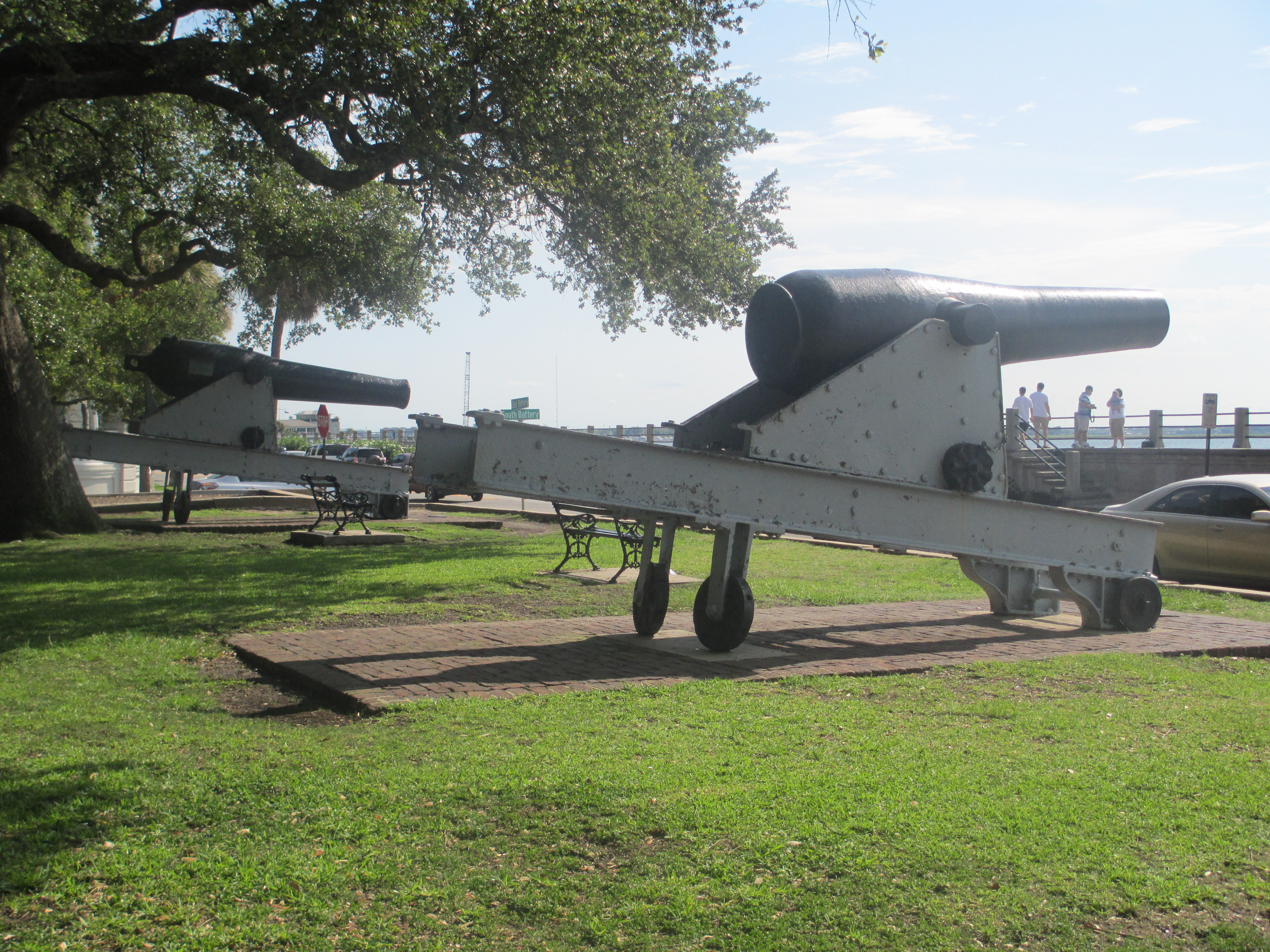 I took photo of cannon displayed at The Battery in Charleston, with Canon camera.